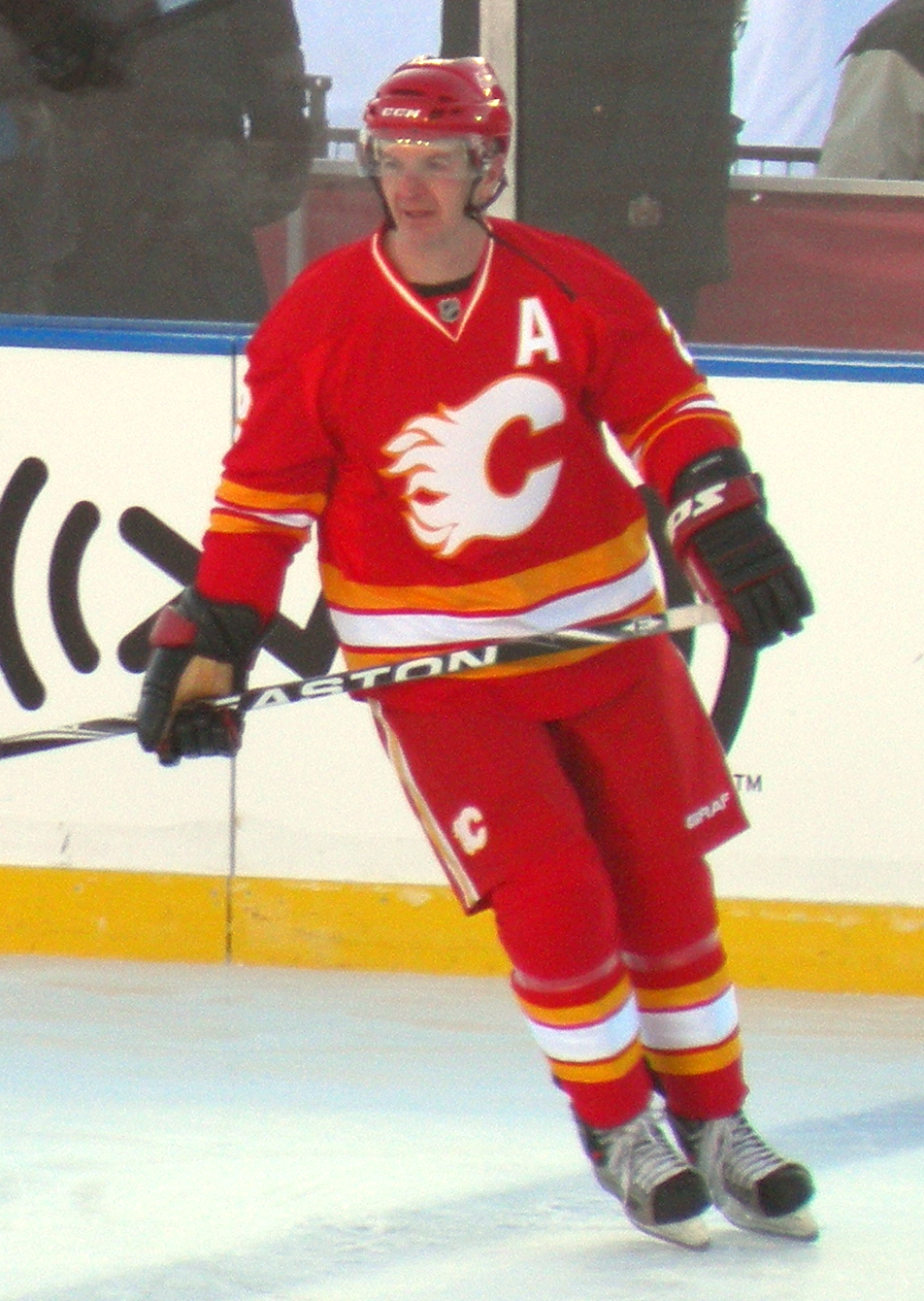 Former defenceman Al MacInnis during the alumni game at the 2011 Heritage Classic in Calgary.